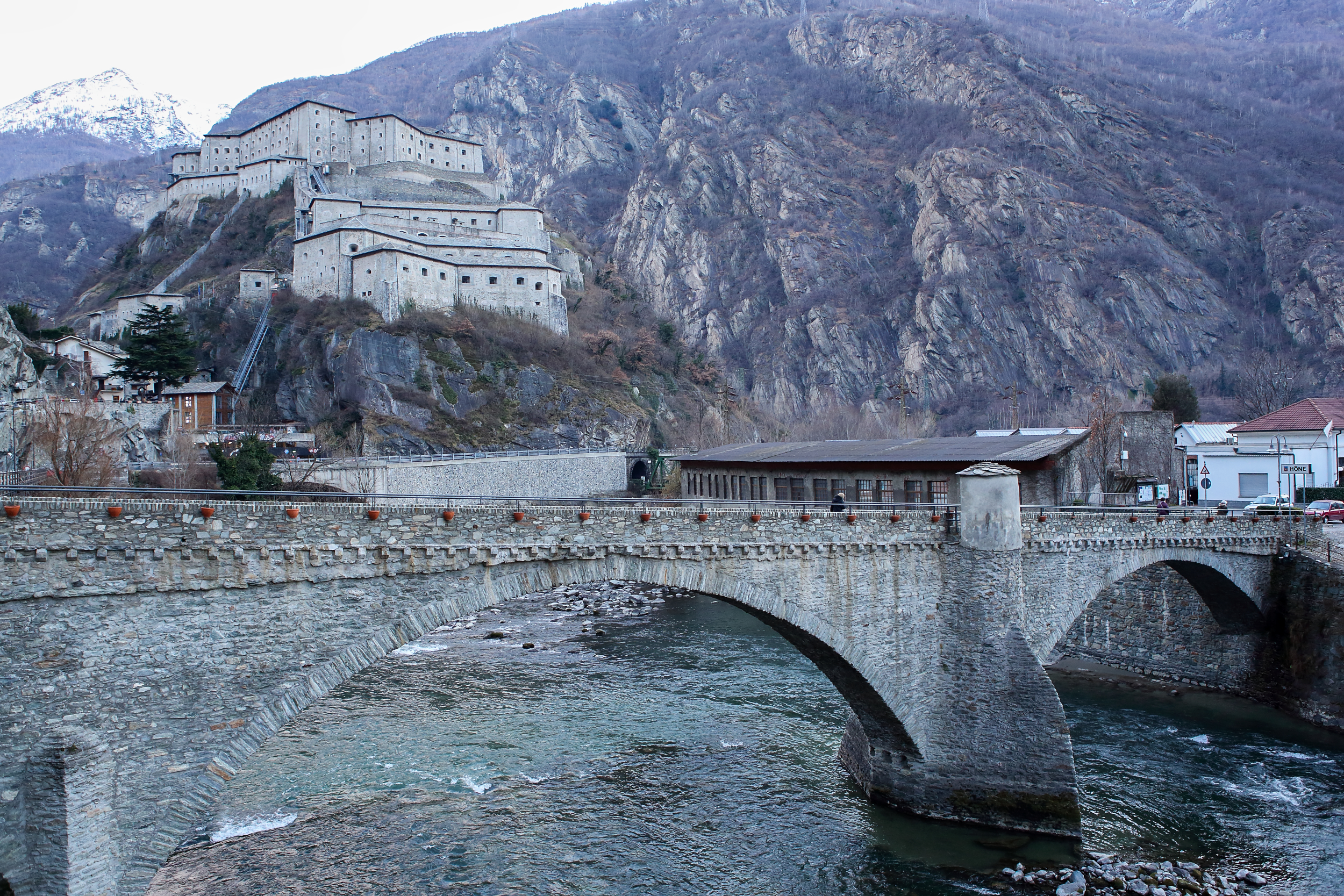 This is a photo of a monument which is part of cultural heritage of Italy.